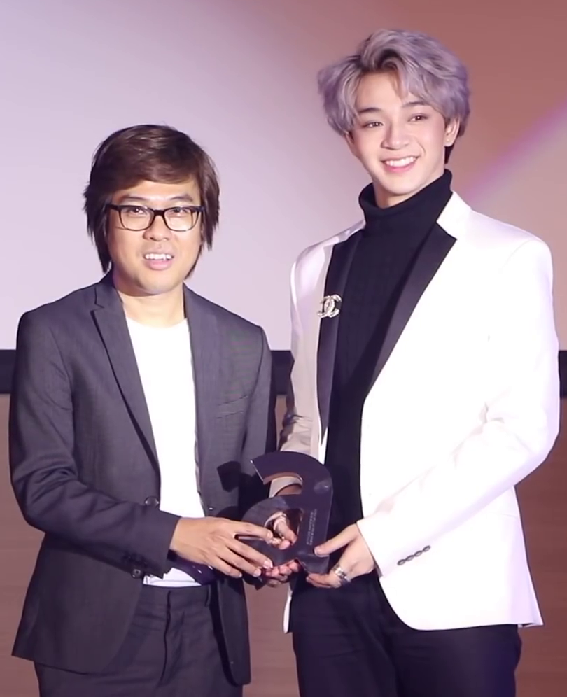 Bas Suradet Piniwat wins "Rising Star of The Year" at attitude awards 2018